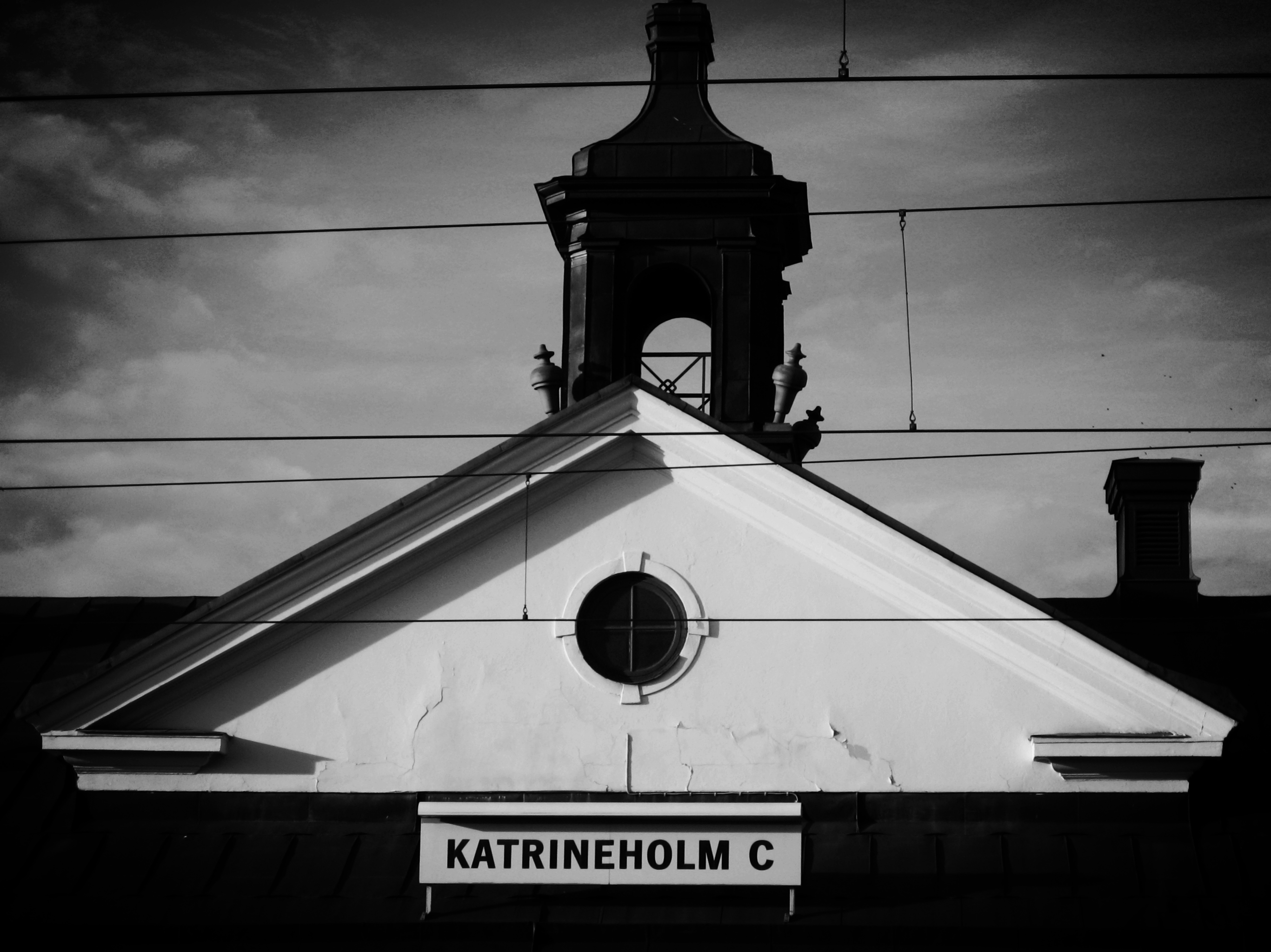 Photo: Me or Nahid